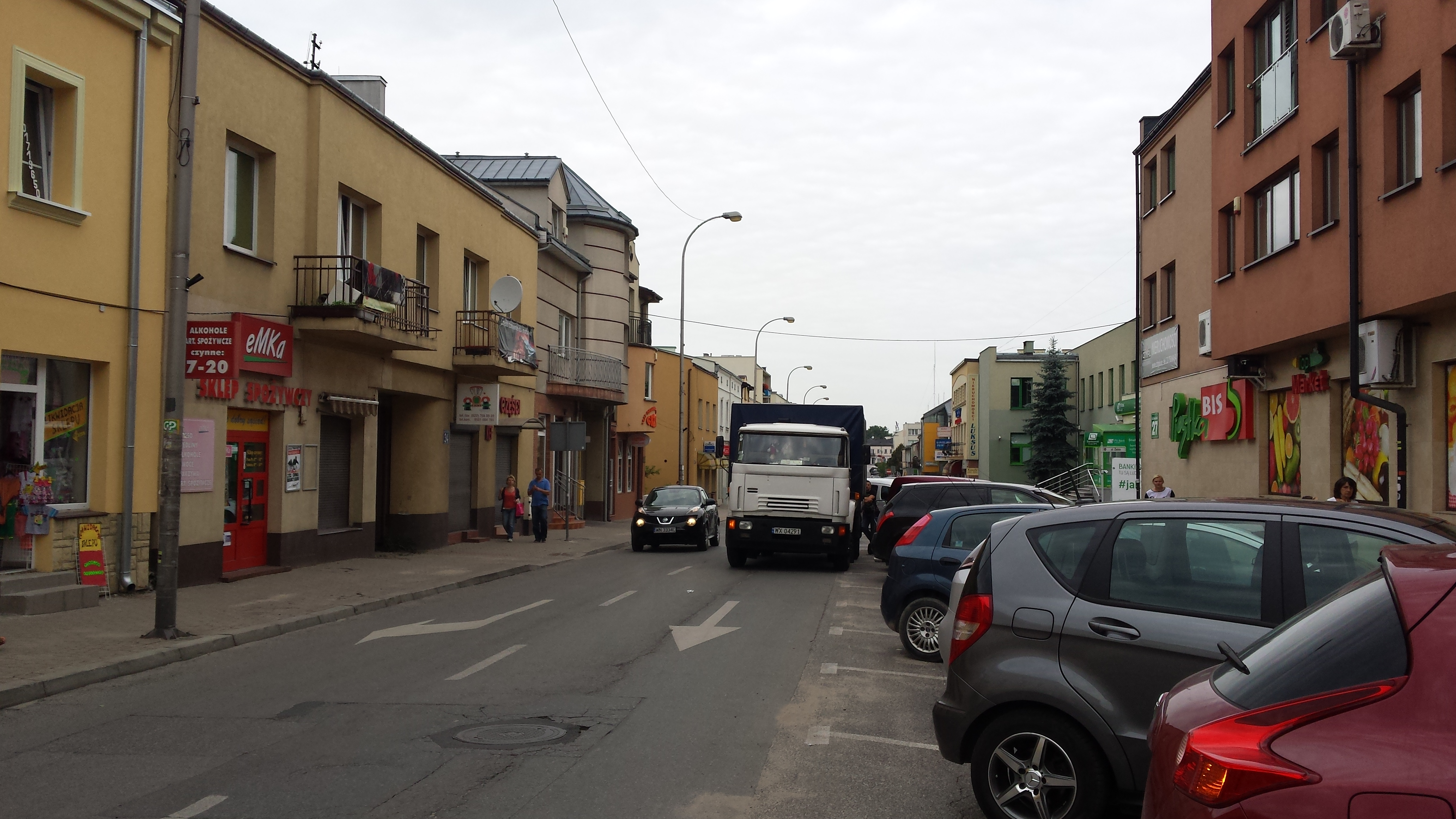 Kościuszki Street in Piaseczno